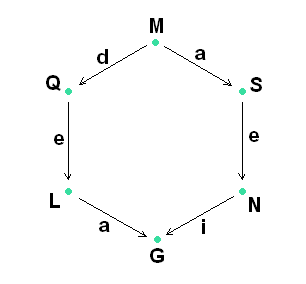 From magma to group via two alternative paths. Key: M = Magma, i = Inversibility, Q = Quasigroup, S = Semigroup, d = Divisibility, a = Associativity, N = moNoid, G = Group, L = Loop, e = idEntity.